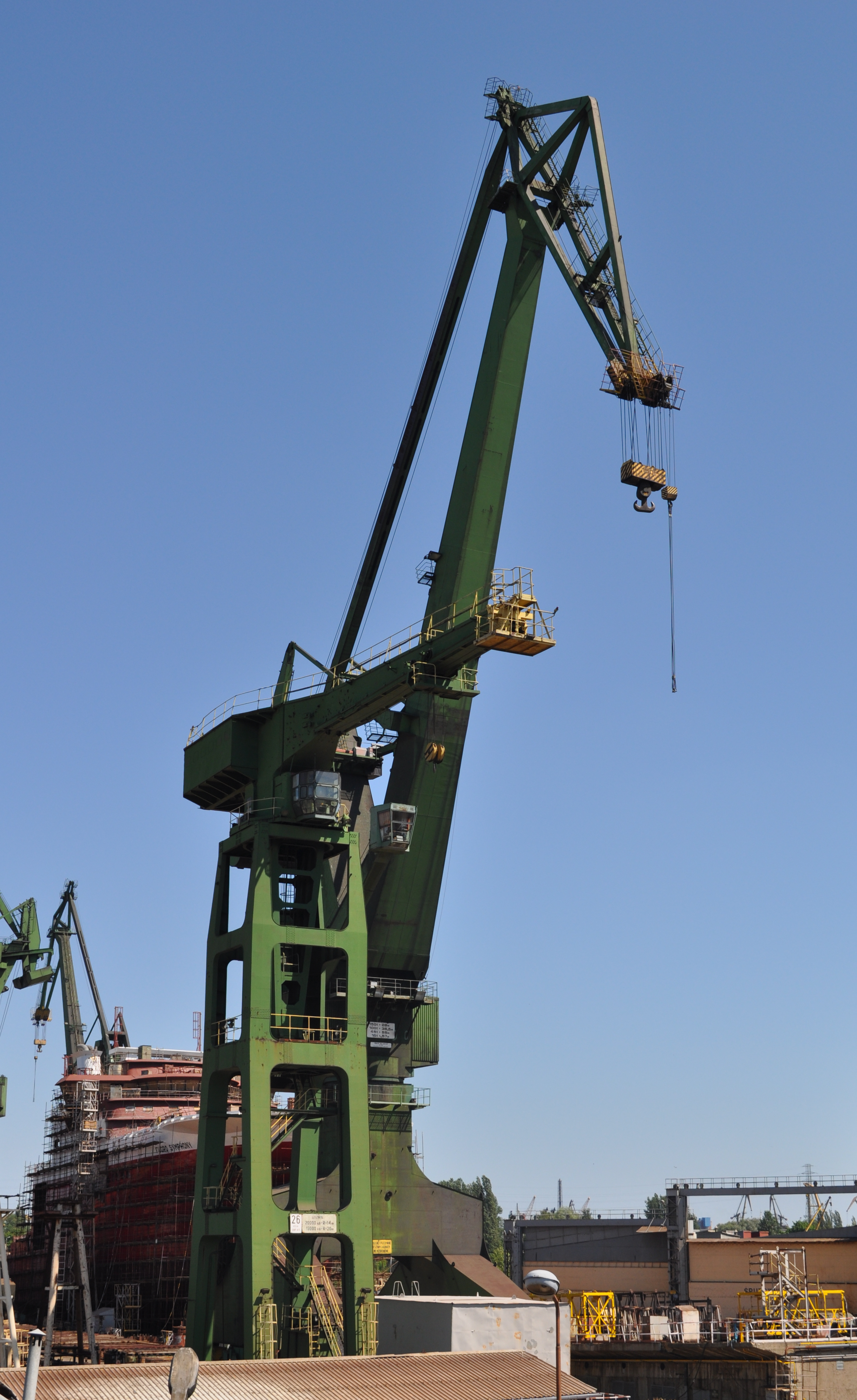 Crane in Gdansk Shipyard